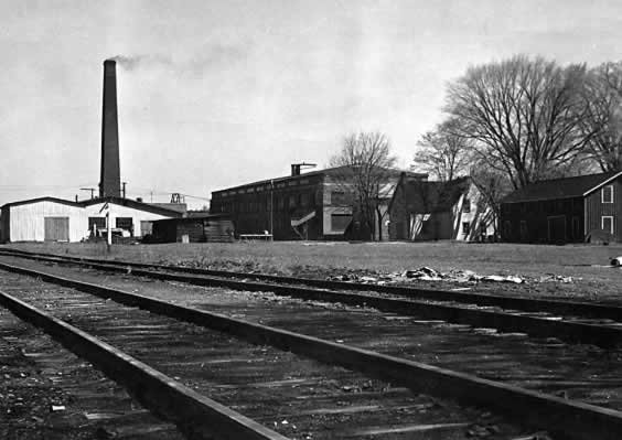 This image shows the original starting point of the Cobourg and Peterborough Railway in downtown Cobourg. The buildings in the image are the remaining portions of the Crossen Car Works, which by this point in 1948 were largely removed. The line ran south from this point along Railway Street (today known as Division Street) to the harbour, and north past the Grand Trunk Railway lines to Rice Lake. The Cobourg page that hosts this image states that the location is at Railway and University. However, their geotagging on that same page places it at Railway and King Street (Kingston Road). According to Ted Rafuse, a local historian, "Crossen expanded his business operation by constructing a series of large buildings on property between University Avenue and the Grand Trunk Railway and west of George Street." This would suggest the location at Railway and University is correct, and that this image is likely looking northeast.